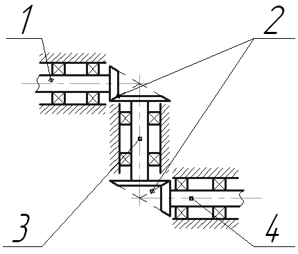 Z-shape gear mechanism